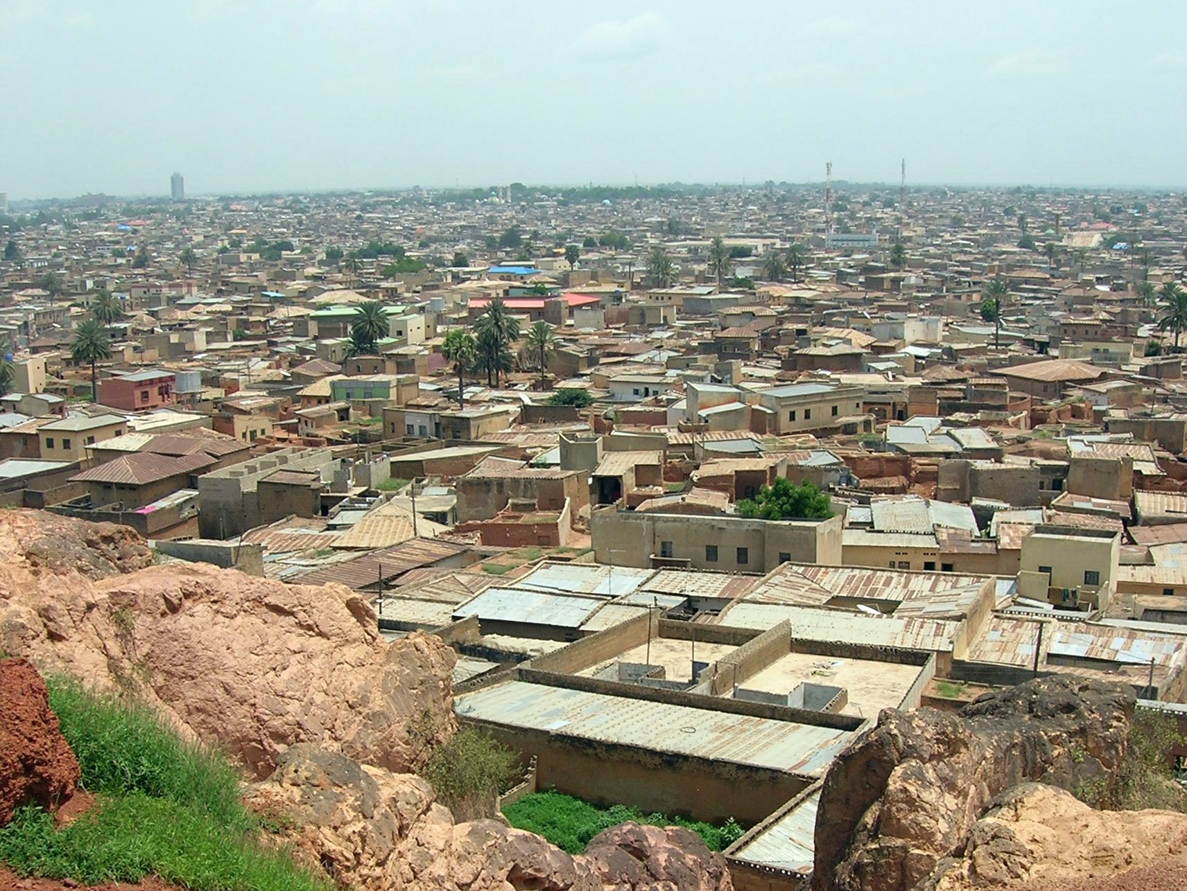 Kano, Nigeria. Photo by Shariz Chakera. Found at